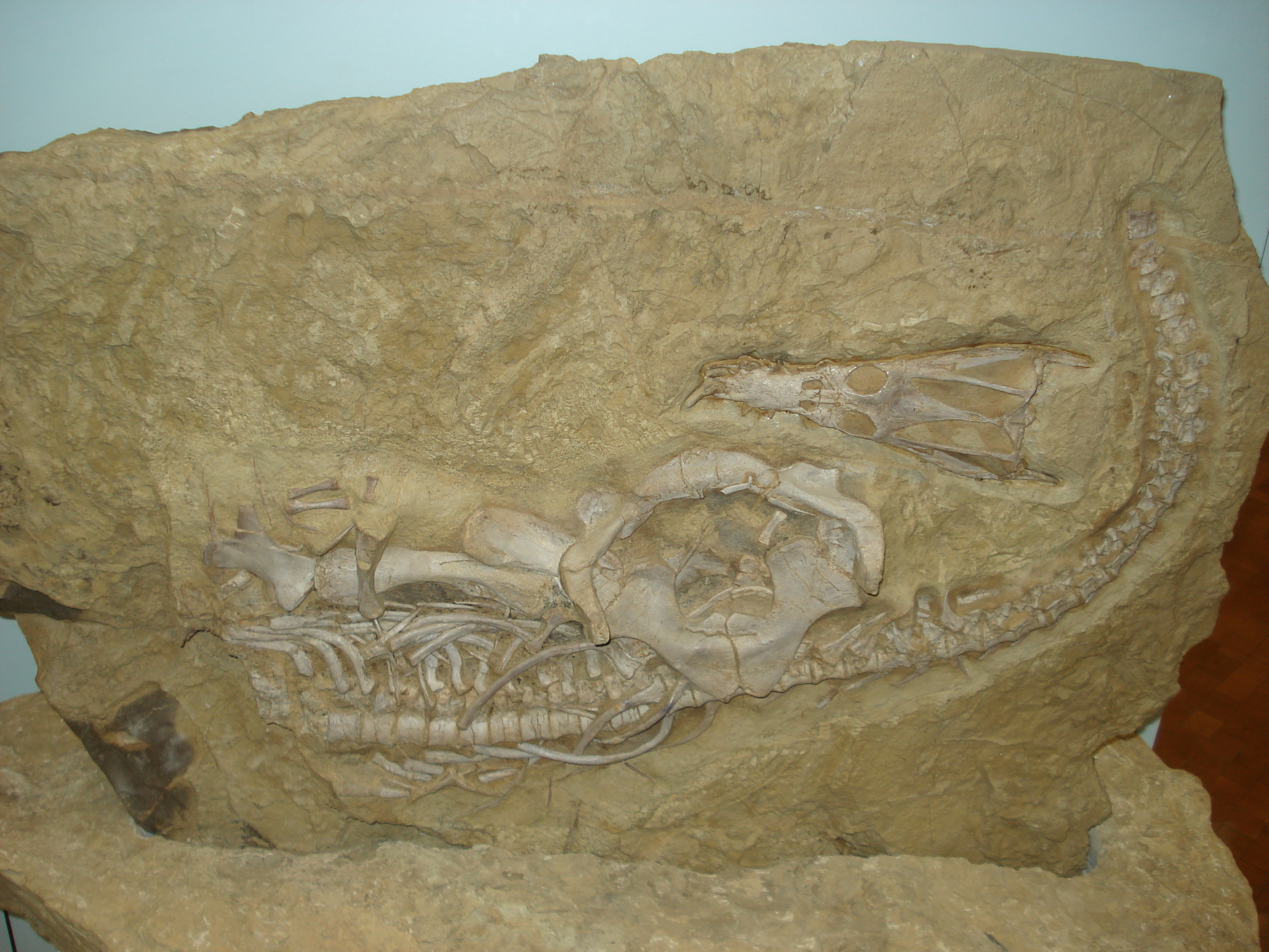 fossil of nothosaurus